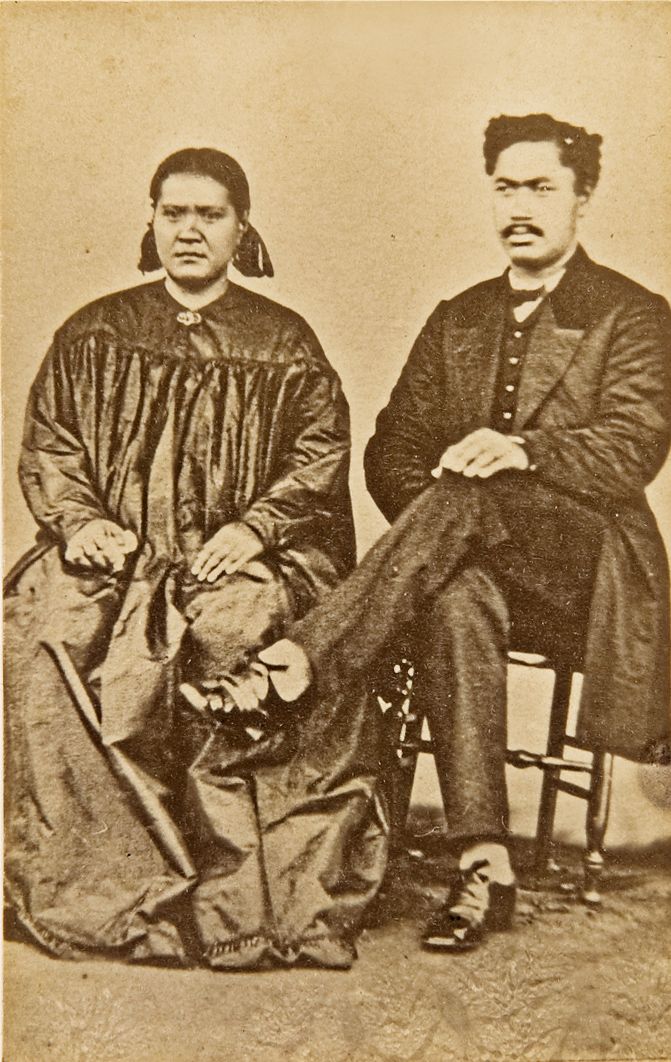 Portrait of the Queen of Bora Bora island, eldest daughter of Queen Pomare of Tahiti (1813-1877), and her husband. They are both sitting, he with his legs crossed, and wearing European clothing.